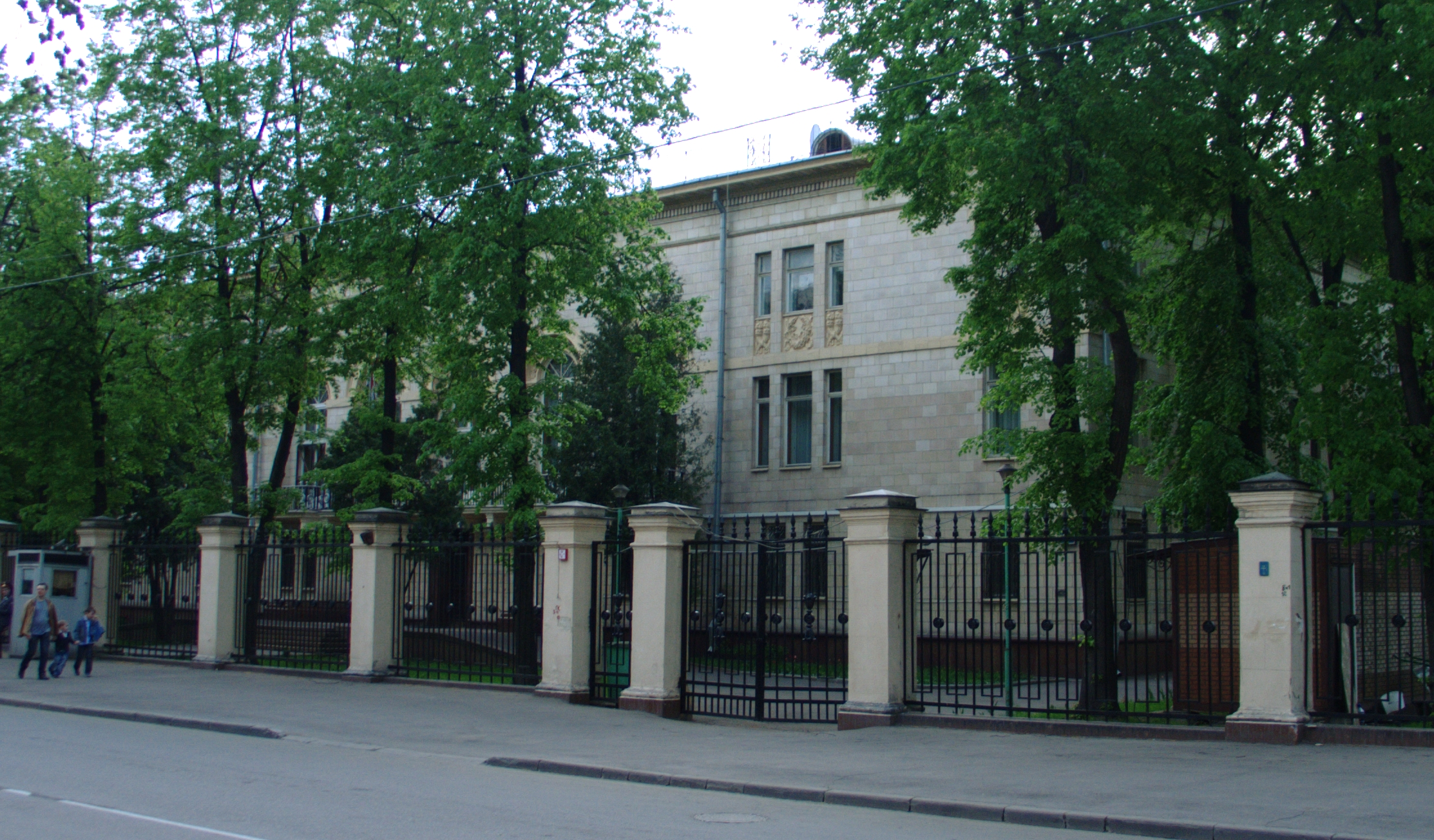 Building of the Embassy of Iraq, Moscow (Pogodinskaya st 12).